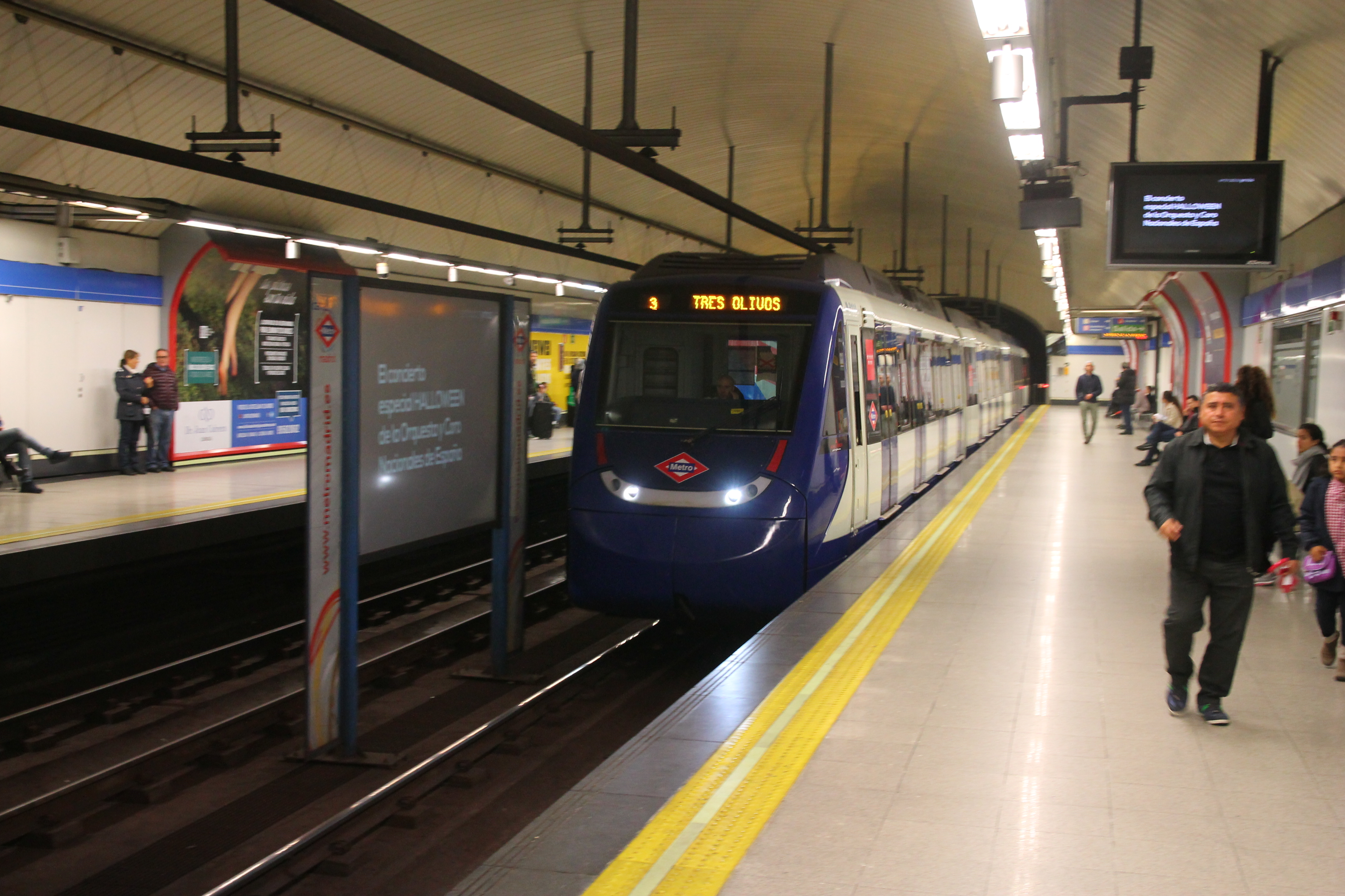 Platform of the Nuevos Ministerios metro station, line 10, Madrid, train class 9000